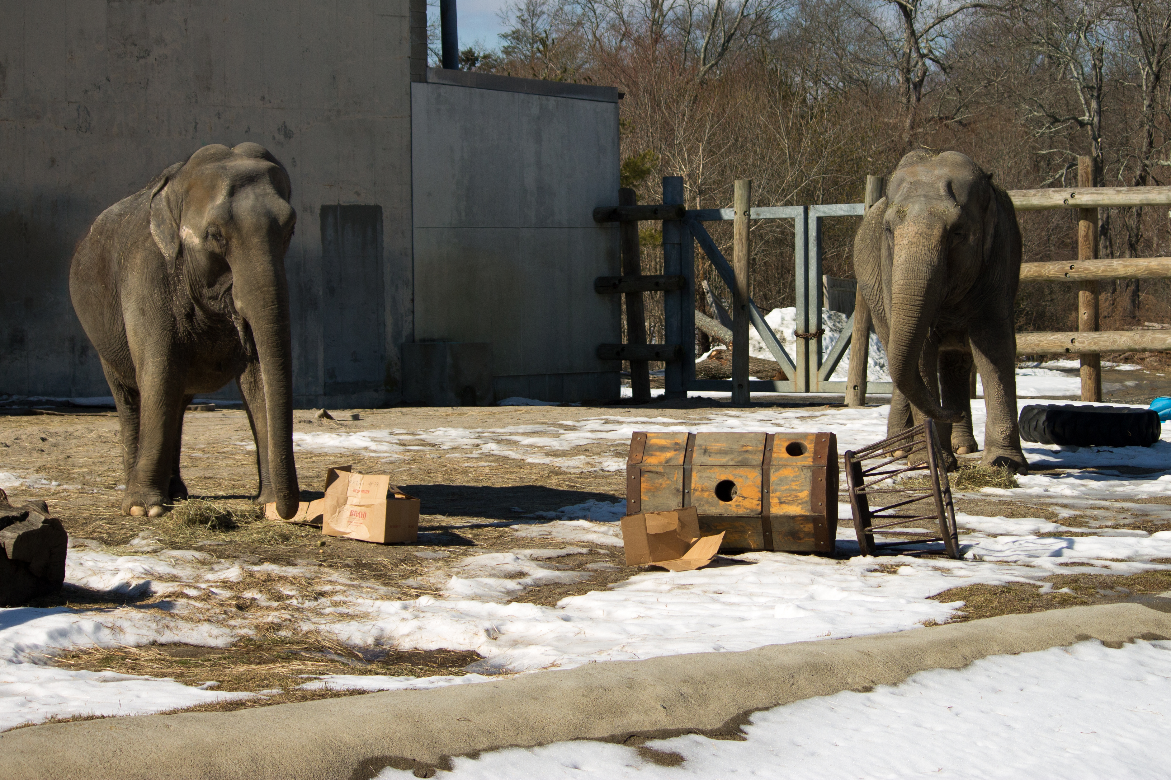 The two Asian elephants, Ruth and Emily, at the Buttonwood Park Zoo in New Bedford, Massachusetts.